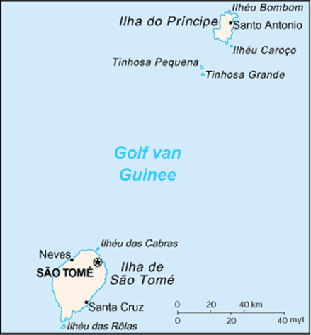 An Afrikaans map of São Tomé and Principe.